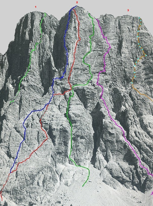 Civetta - CIMA SU ALTO Piussi-Anghileri-Molin (linea blu)